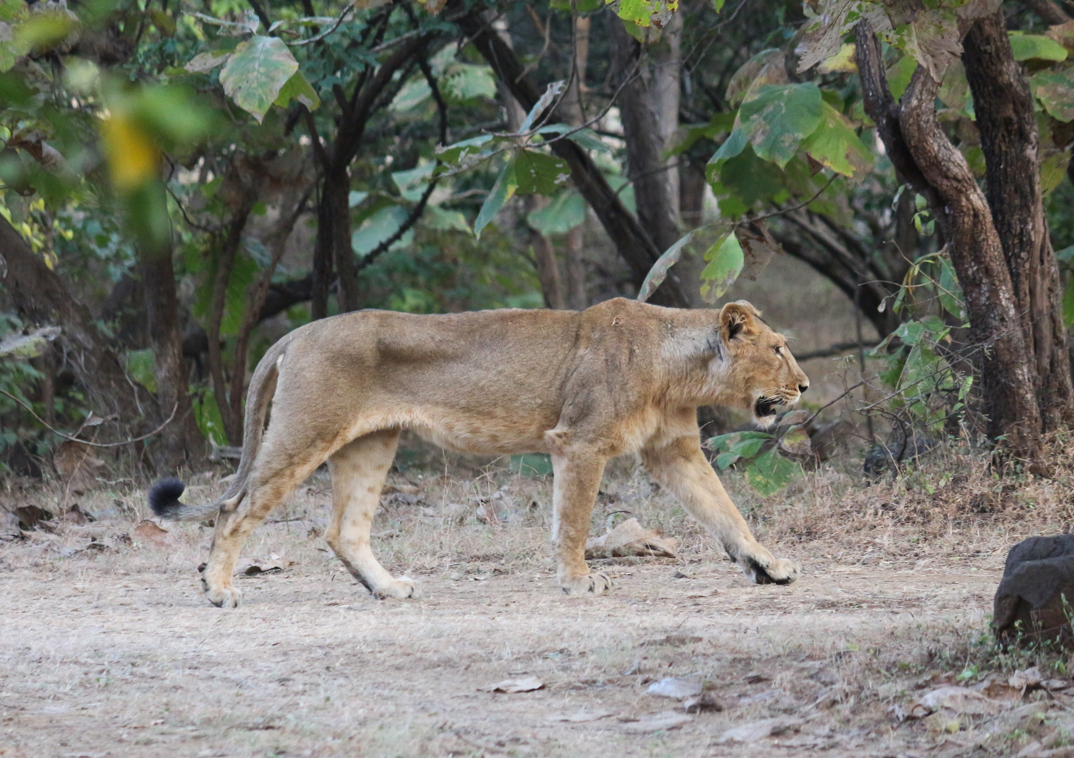 Female Asiatic lion (Panthera leo persica) in Gir Forest National park, India